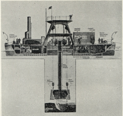 Mobile Air Lock Diving Bell, cross section drawing, built for the Admiralty in 1902